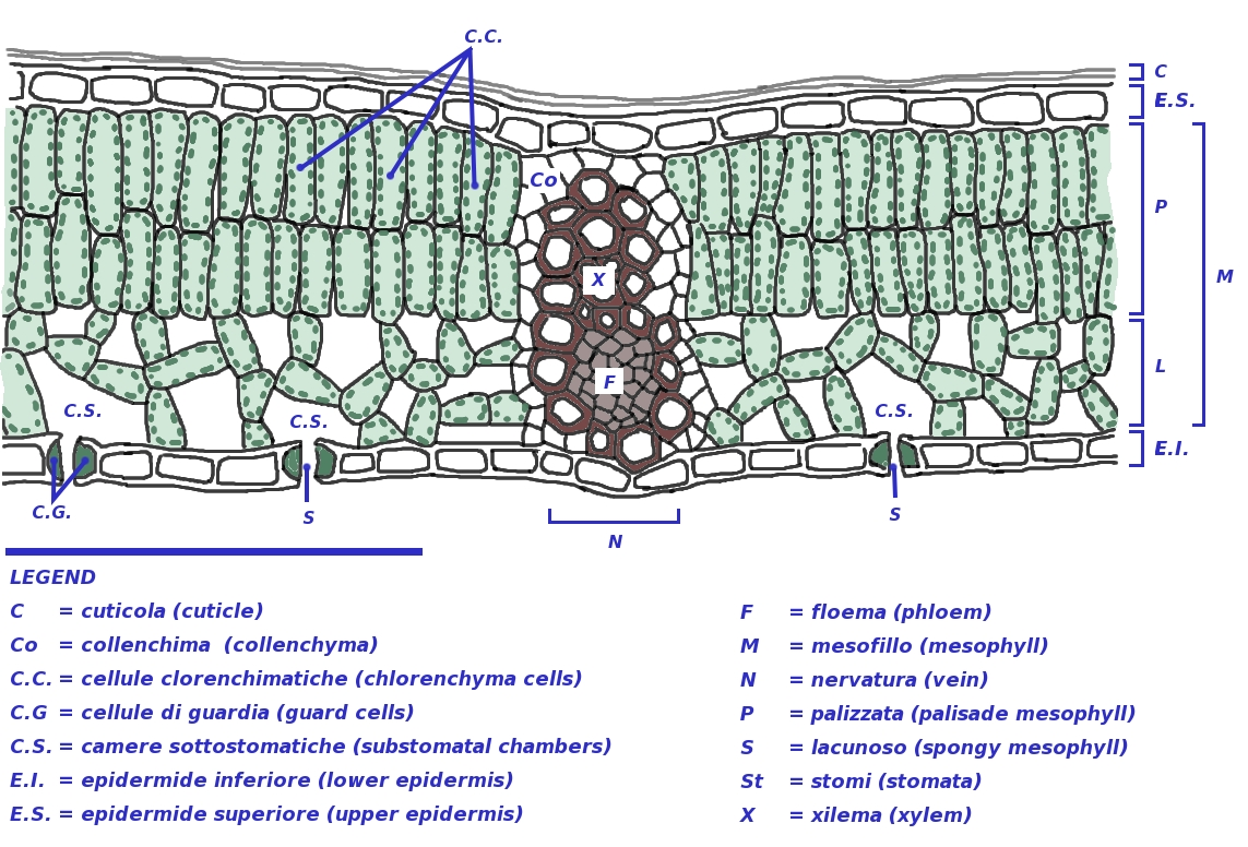 Anatomic structure of the leaf